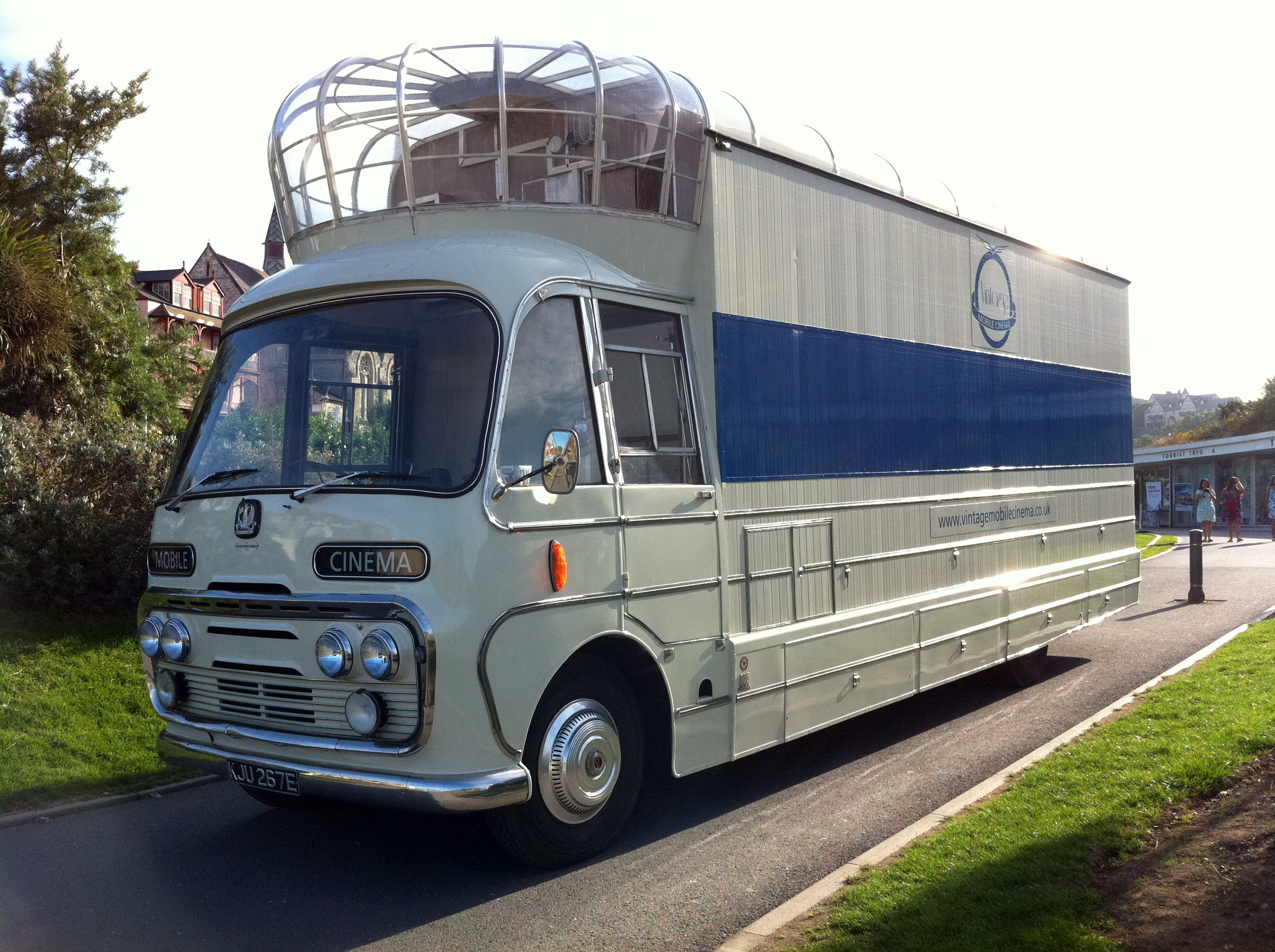 Vintage Mobile Cinema, movie bus, PERA, Ministry of Technology, Bedford, Plaxton, Coventry Steel Caravans